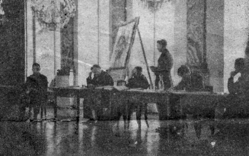 Capt. Edward F. Lyons, Jr., of the prosecution reads testimony taken during the trial of 15 defendants at Ludwigsburg, who are charged with assaulting and later killing seven U.S. airmen on Borkum Island in August, 1944.